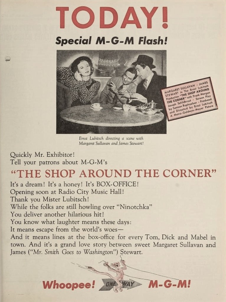 Ernst Lubitsch directing a scene with Margaret Sullavan and James Stewart for the 1940 film The Shop Around the Corner